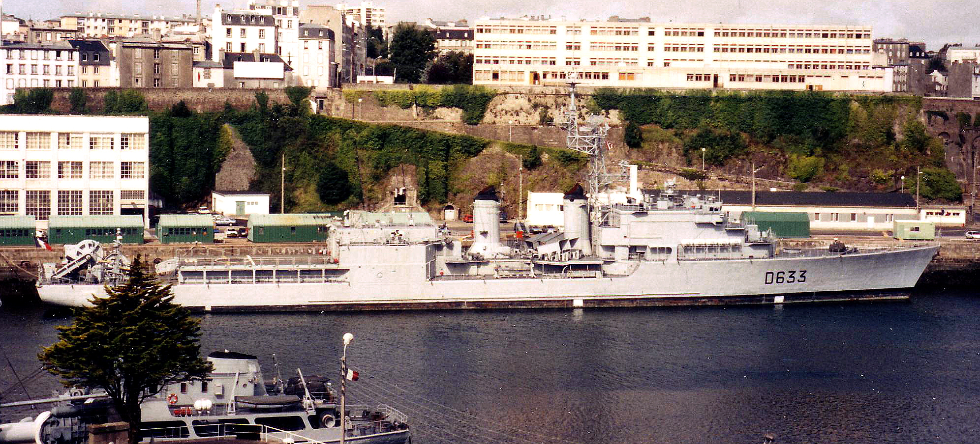 The decommissioned French destroyer Duperré (D633) at Brest (Penfeld) in August 1993.